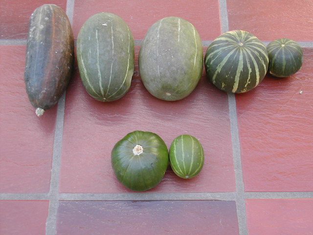 F2 generation between spp maxima cv zapallito and ssp andreana, first line both parents, zapallito at inmature state, second line fruits of different F2 plant at mature state